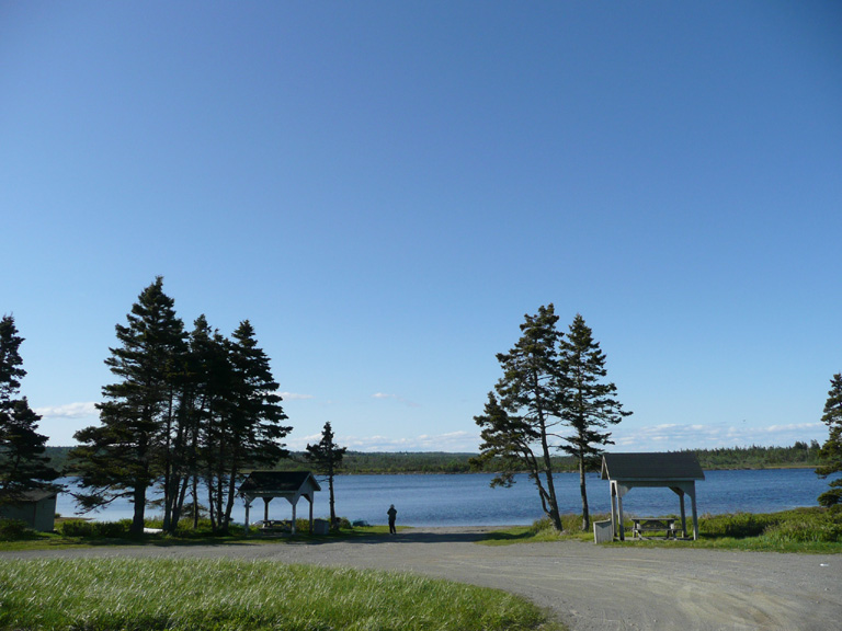 Great Pond in Anchorage Provincial Park, Grand Manan, New Brunswick.